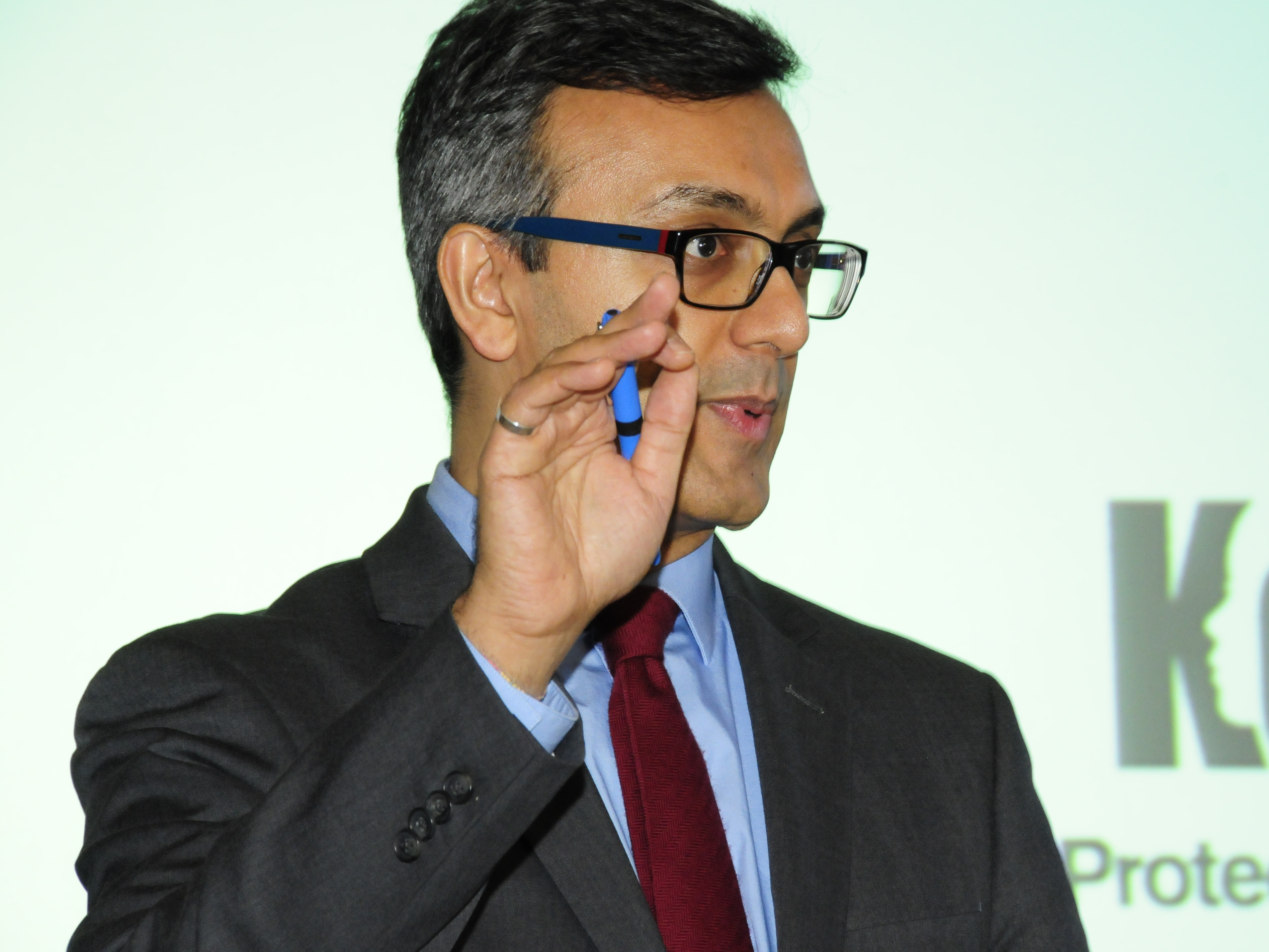 Leading humanitarian agencies met in the UK today to endorse a global commitment that will prioritise the protection of girls and women from violence and sexual exploitation in emergency situations. International Development Secretary Justine Greening and Sweden’s International Development Minister Hillevi Engström co-chaired a high-level event in London for governments, UN heads, international NGOs and civil society organisations to agree a fundamental new approach to protecting girls and women in emergency situations, both man-made and natural disasters. Read the news story: Pictures: Sheena Ariyapala/DFID